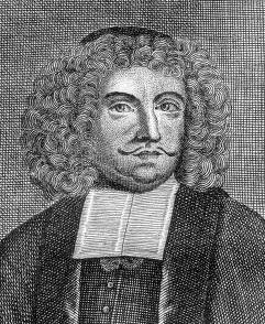 Johann Joachim Becher